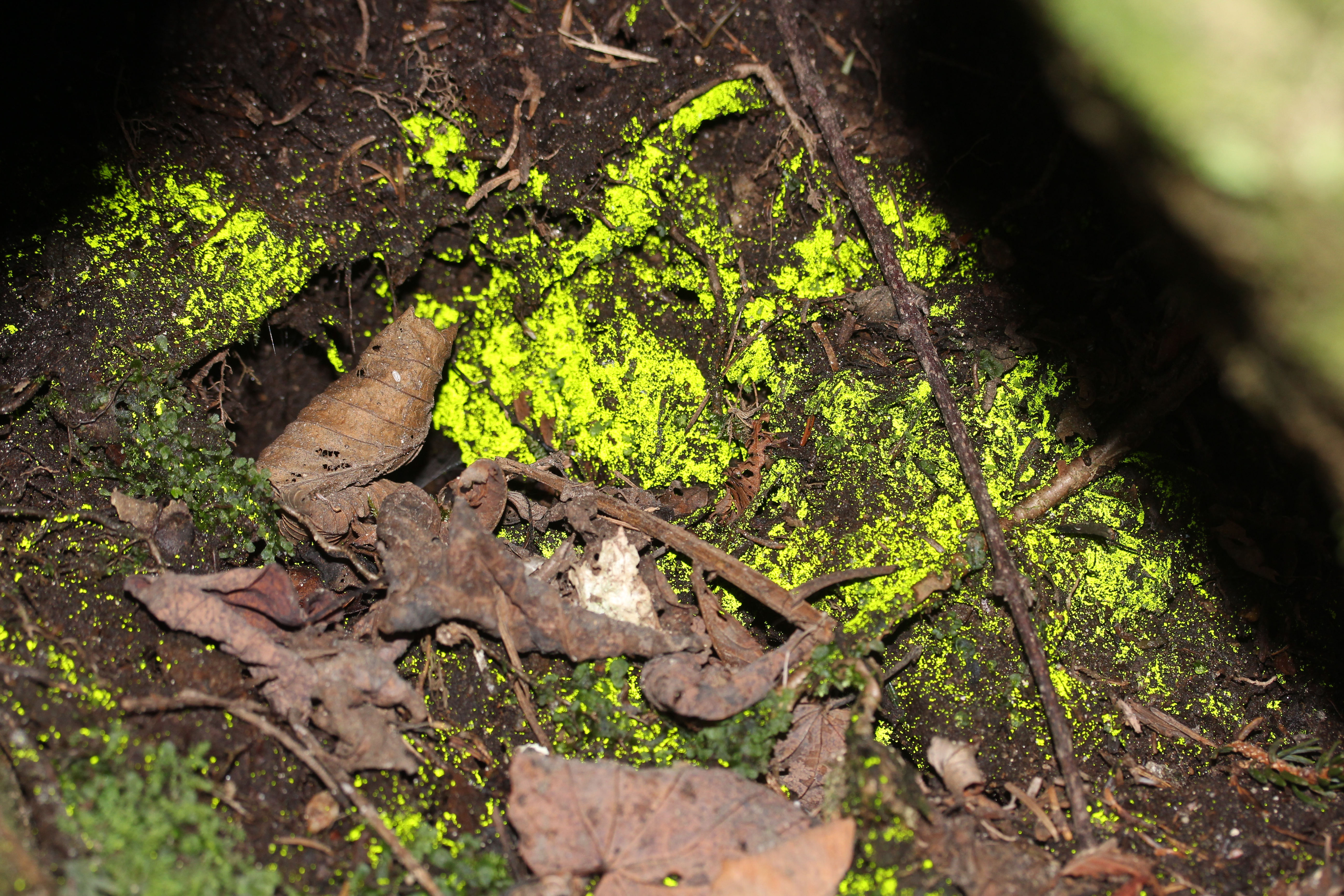 Schistostega, Schistostega pennata (Hedw.) Web. et Mohr in Mount Yake, Takayama, Gifu prefecture, Japan.